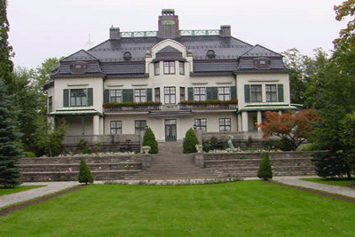 The residence of the US Ambassador to Norway in Oslo. A historic property named “Villa Otium.” From the website of the US Embassy in Oslo [1]